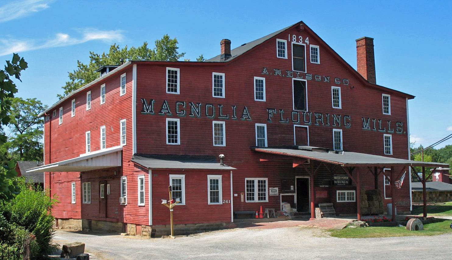 Registered Historic Places in Stark County, Ohio. Elson-Magnolia Flour Mill, 261 N. Main St., Magnolia, Ohio, USA. Photographed 2008-08-25 from driveway in front of the farmhouse at the end of Spring Hill Lane.